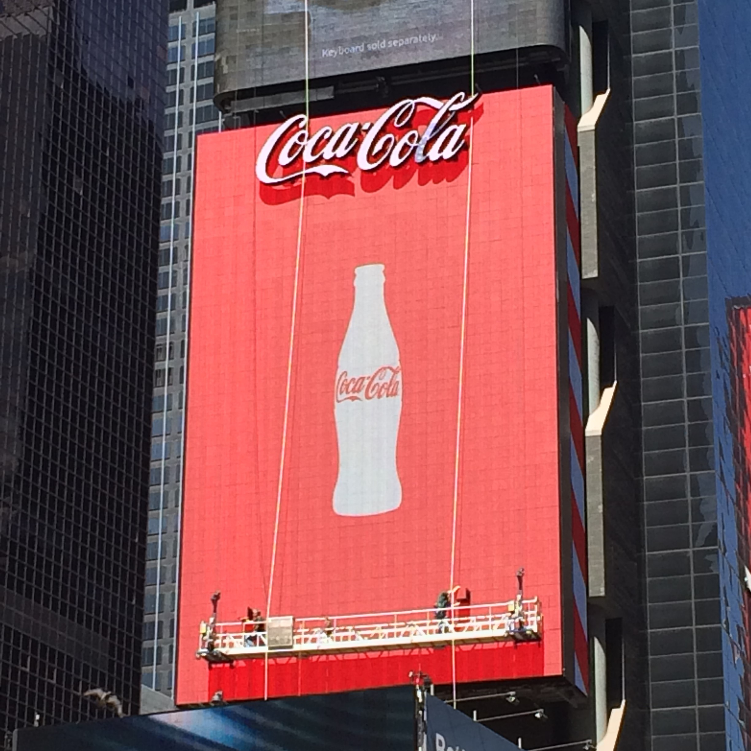 The new Times Square Coca-Cola sign undergoing repairs.